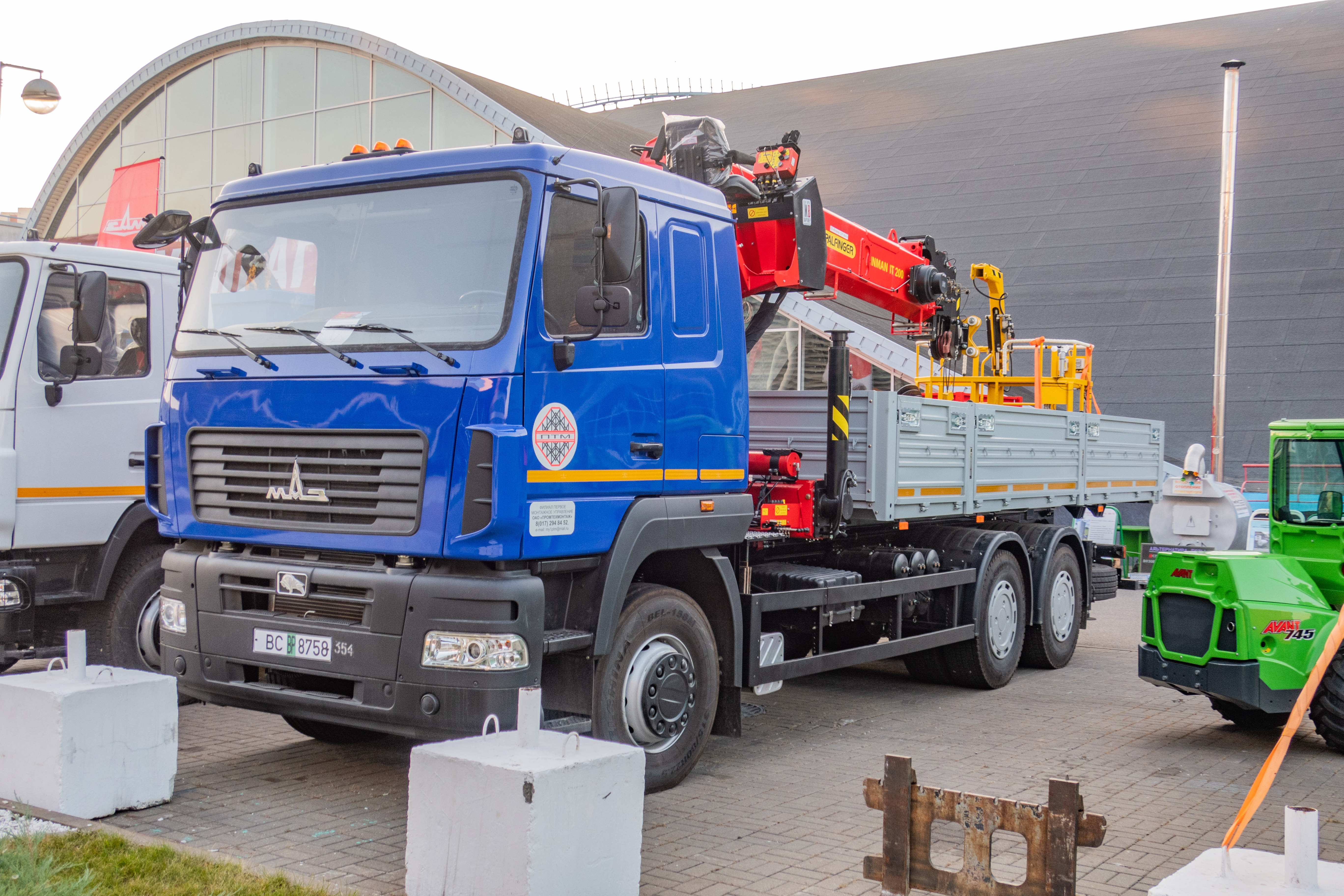 "Budpragres-2019" exhibition, Minsk, Belarus